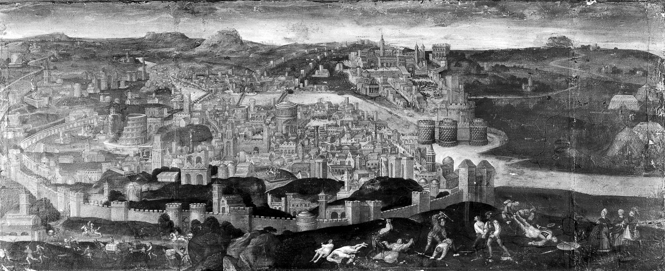 The sack of Rome Wellcome Images Keywords: rome: 1527